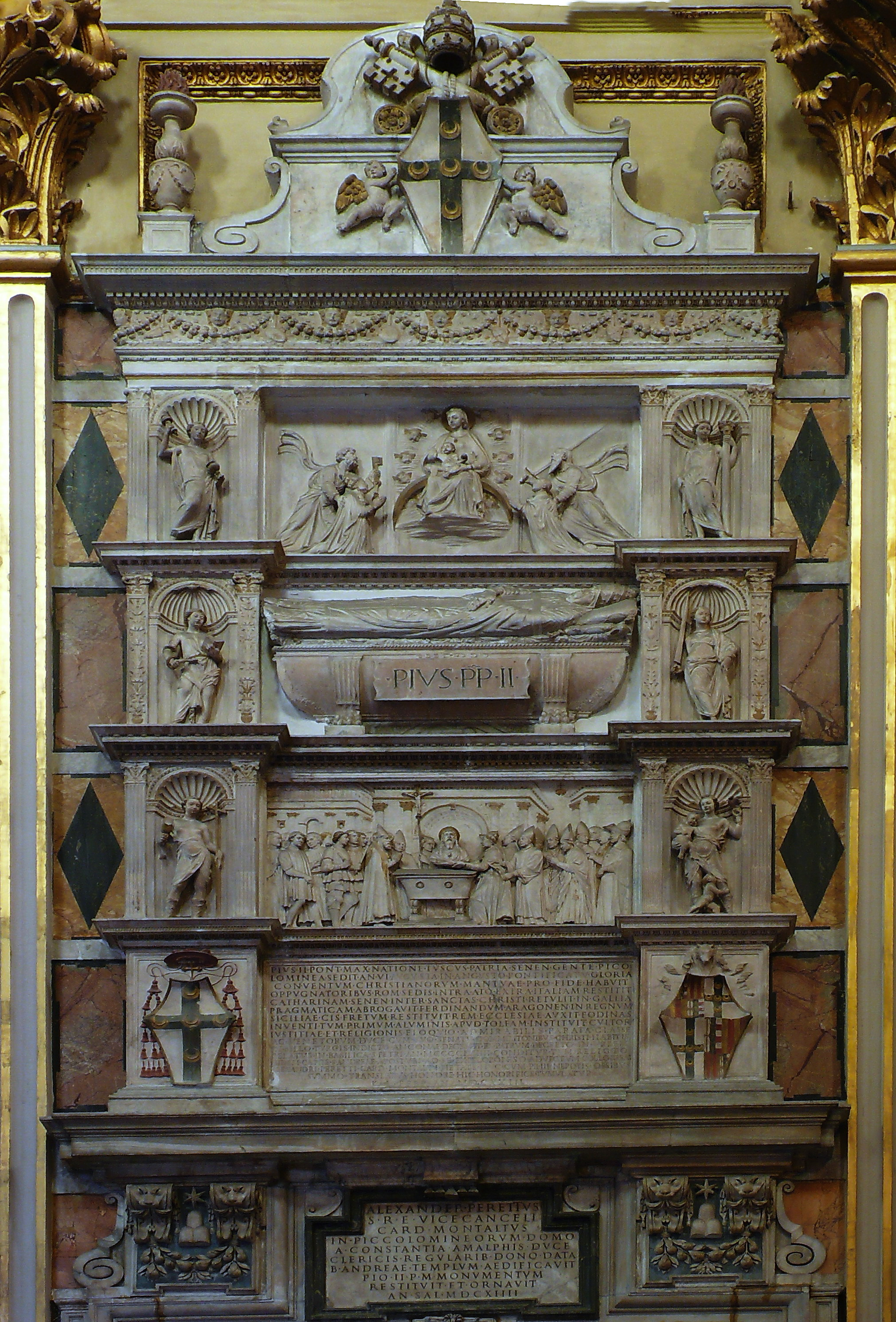 Funeral monument for Pope Pius II.; Sant'Andrea della Valle, Rome